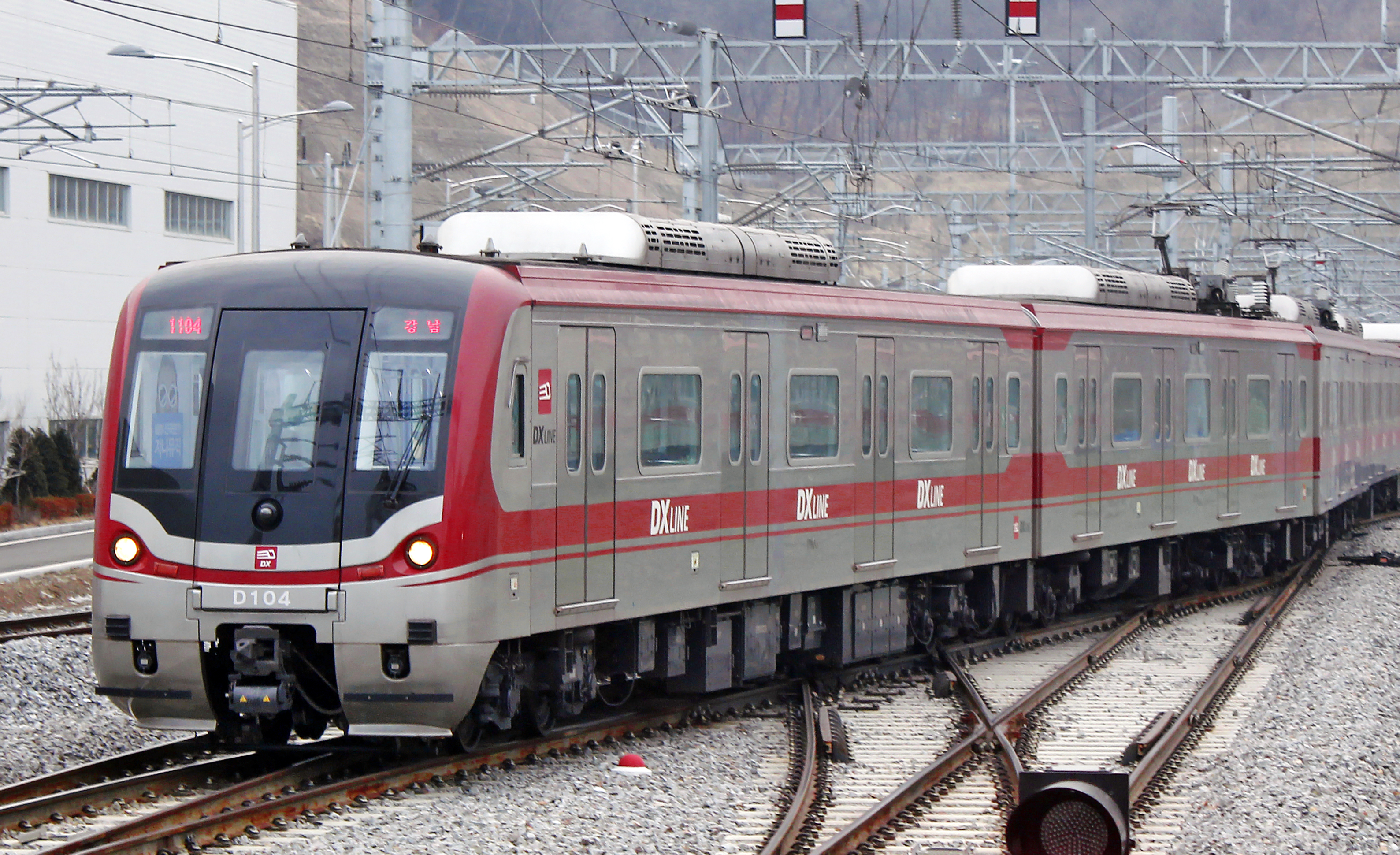 Shinbundang Line D104